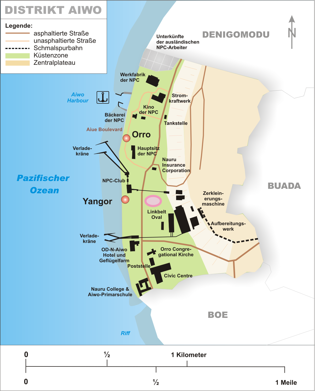 District Aiwo